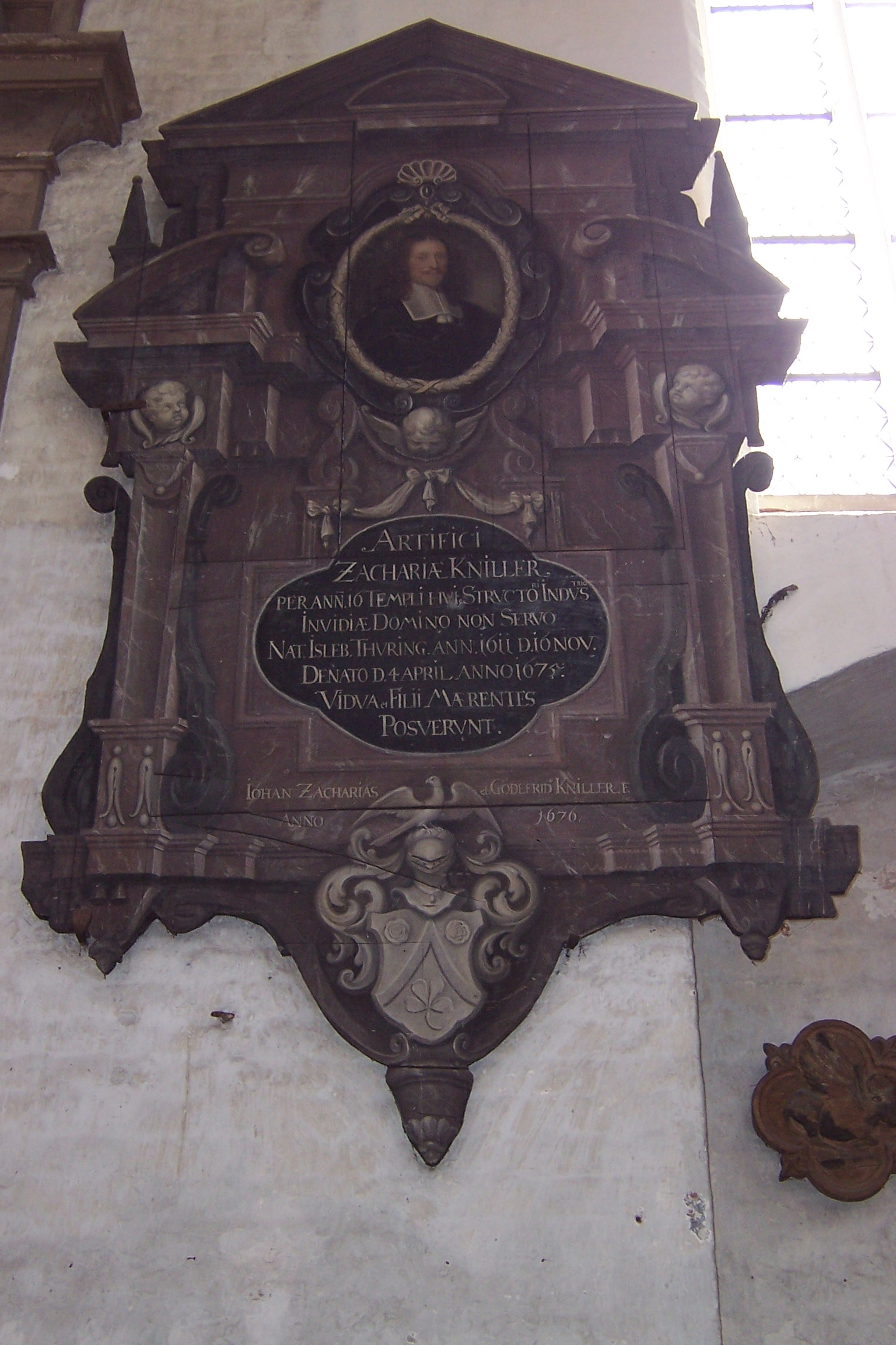 Epitaph of Zacharias Kniller (1611-1675), made by his sons Godfrey Kneller und Johann Zacharias Kniller (1644-1702).